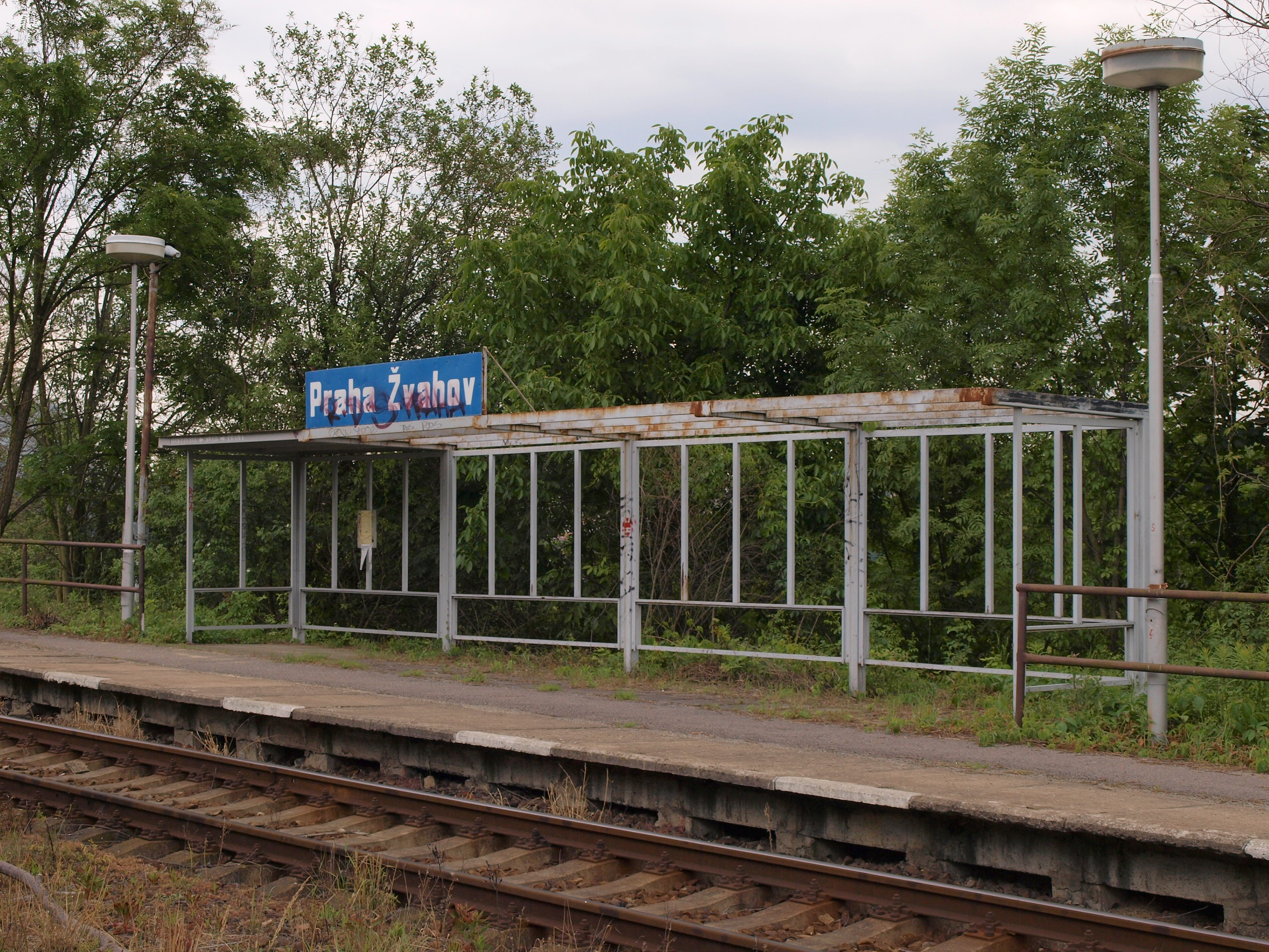 Train stop Praha-Žvahov